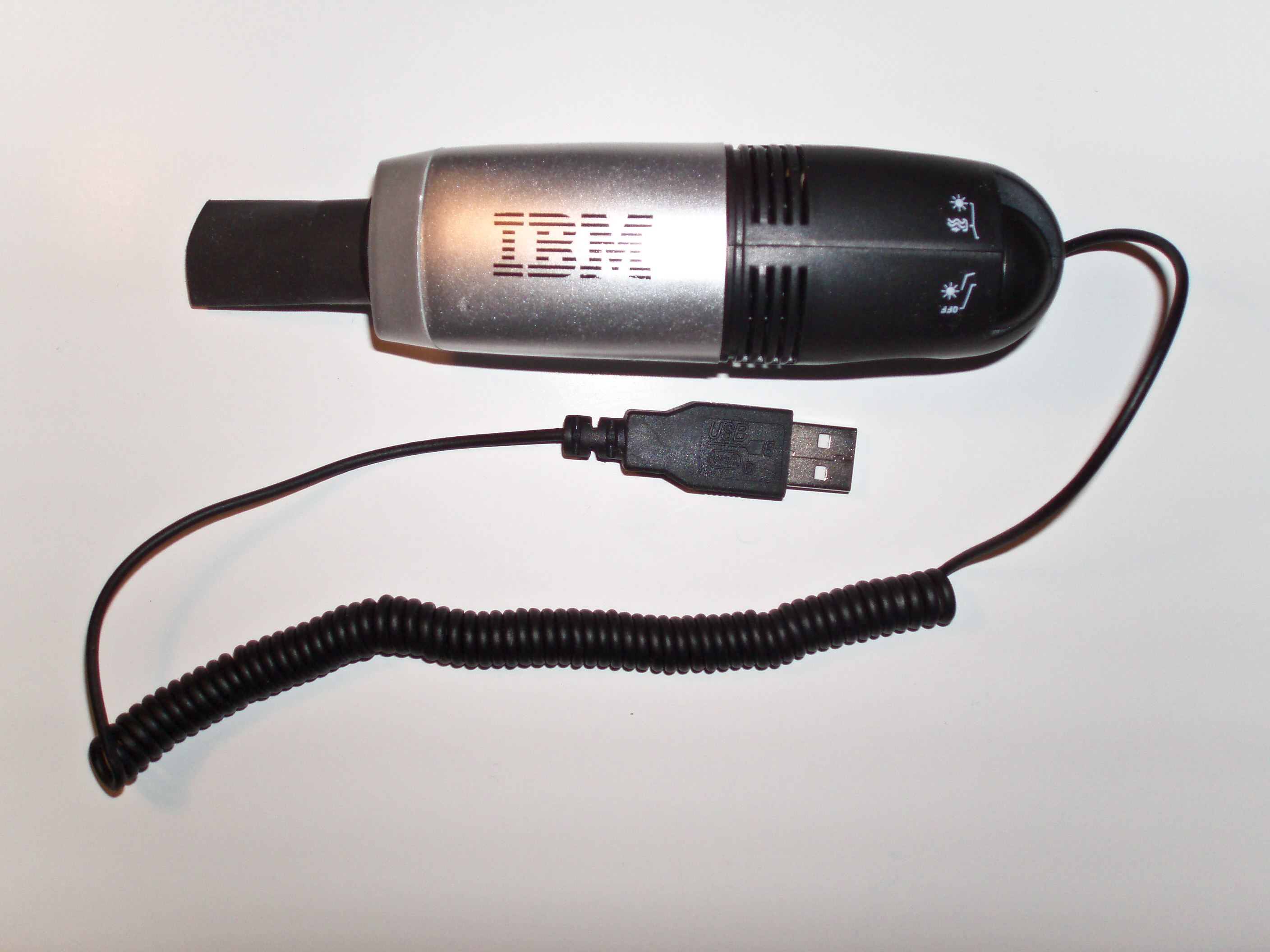 USB Vacuum Cleaner, a giveaway from an IBM event